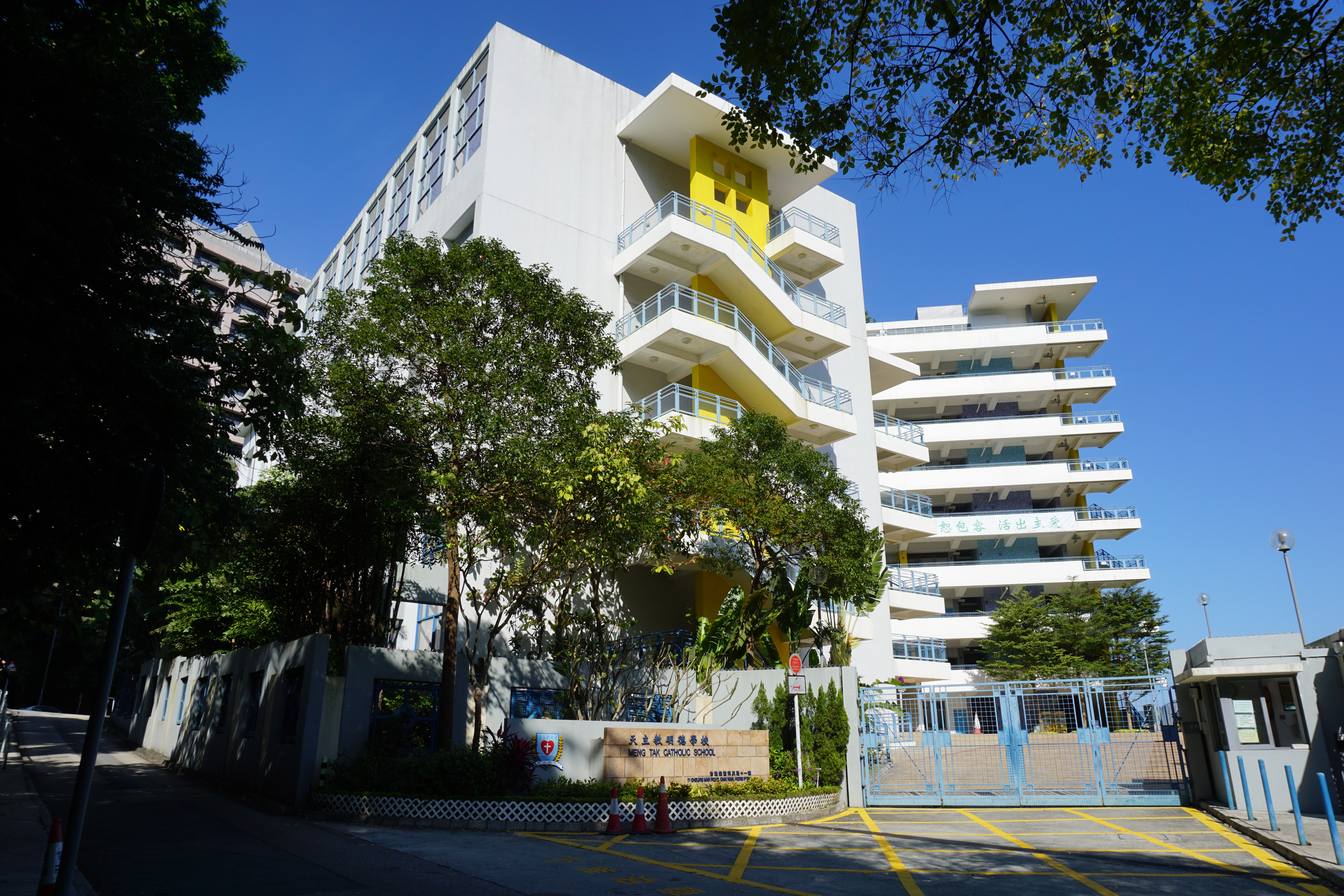 Meng Tak Catholic School in Chai Wan, Hong Kong.